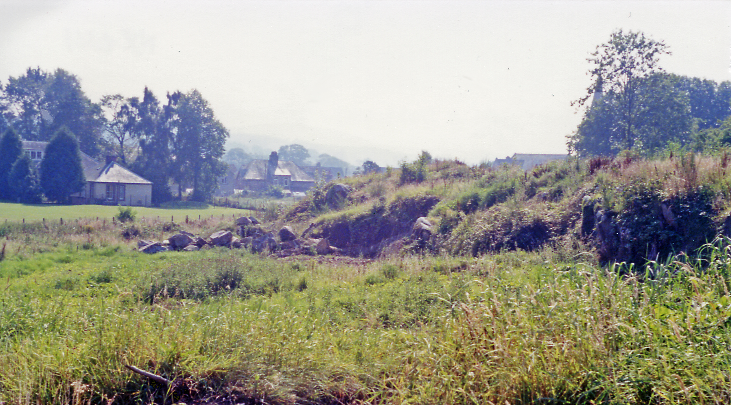 Site of Dalbeattie station. View eastward, towards Dumfries, on the edge of town. This had been a relatively important station on the ex-Glasgow & South Western Dumfries - Castle Douglas section of the (Carlisle) - Dumfries - Castle Douglas - Newton Stewart - Stranraer main line, which was closed completely on 14/6/65 and the trains to Stranraer (for Larne, Northern Ireland) diverted all the way round via Mauchline and Ayr; a whole swathe of SW Scotland was left without any railway.